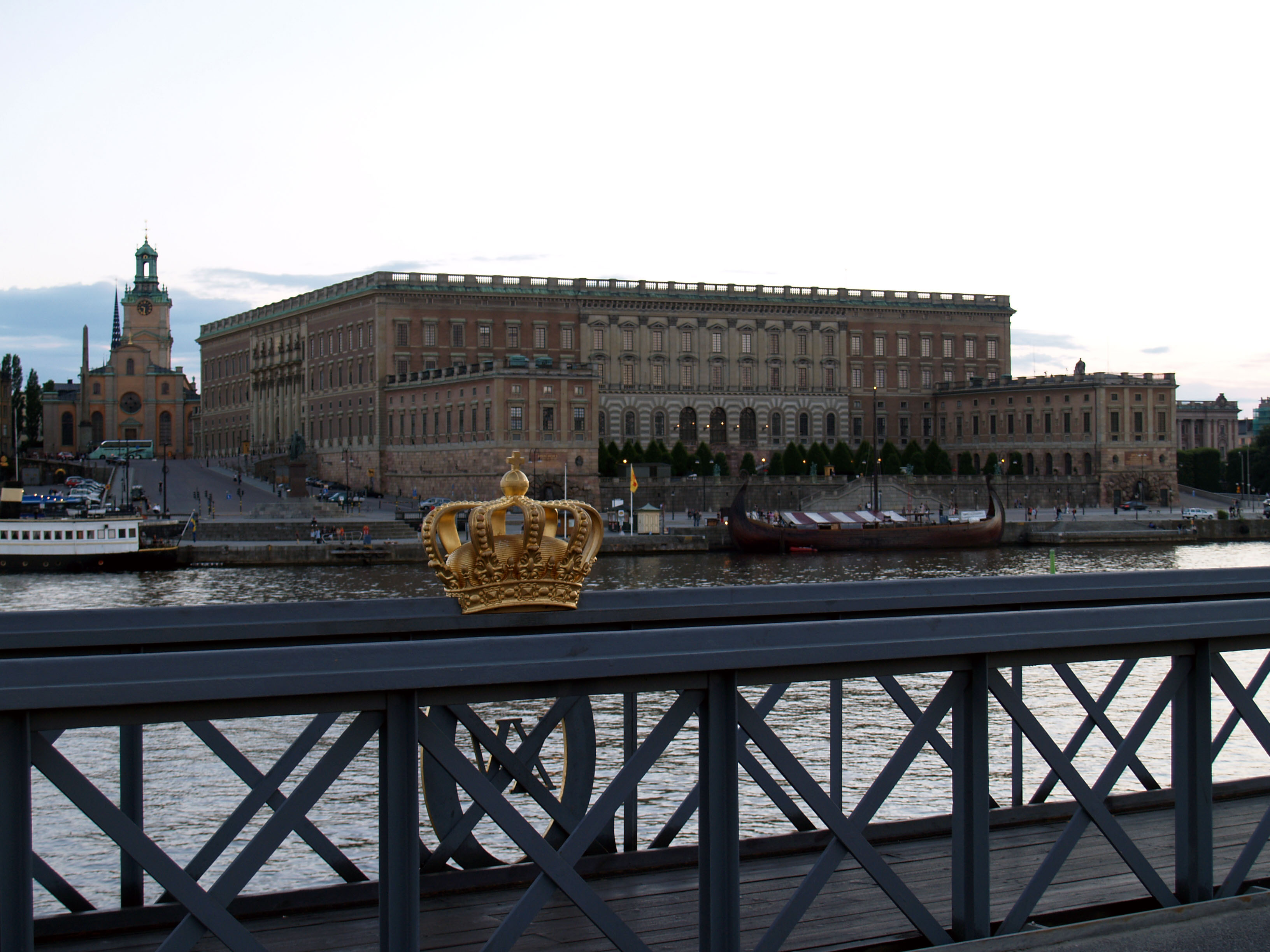 The Royal Palace at Stockholm, Sweden. On left side Storkyrkan (Stockholm Cathedral).